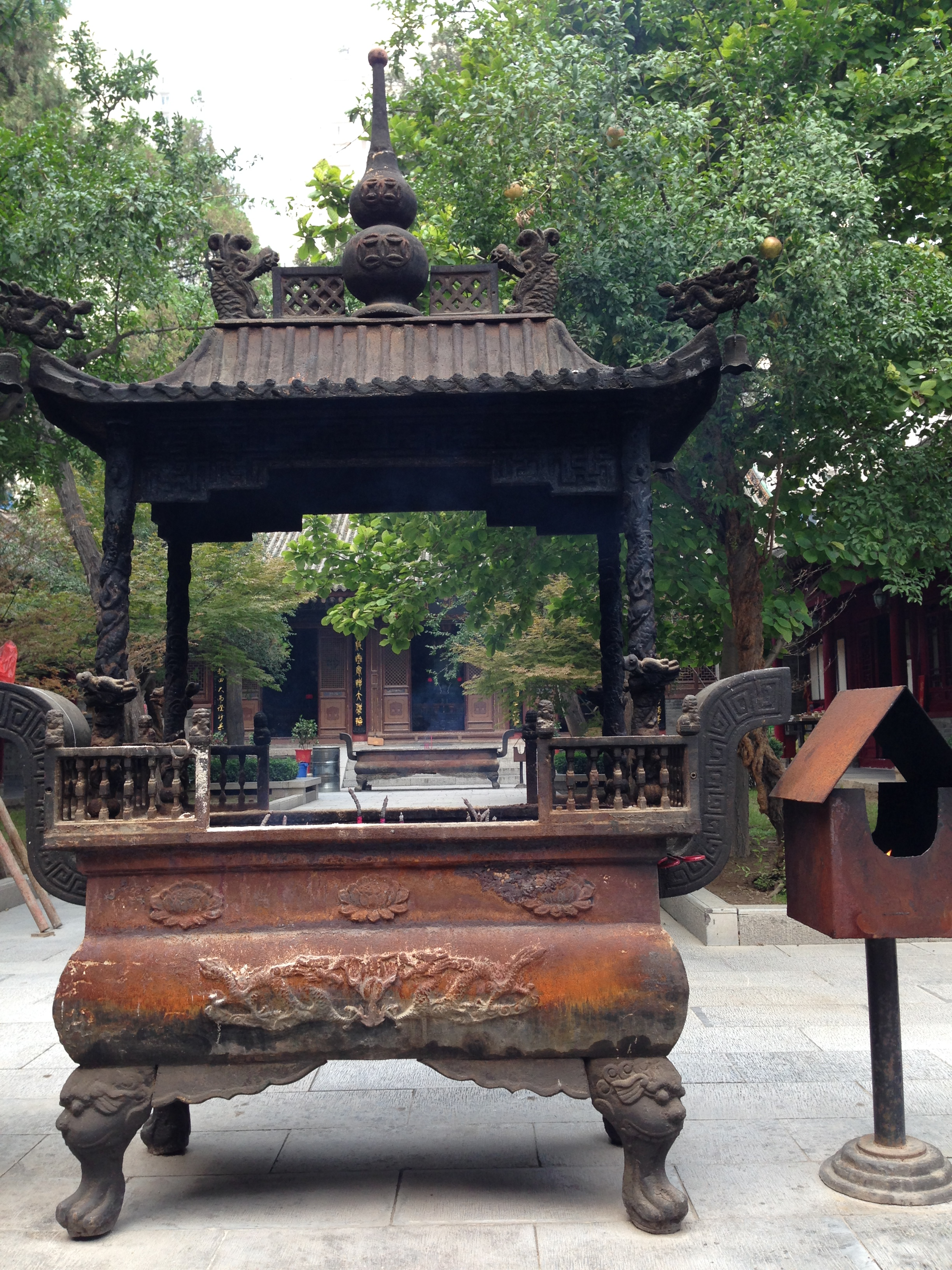 Wang Ji-Temple in Xi'an (China) with a history going back to the Tang Dynasty